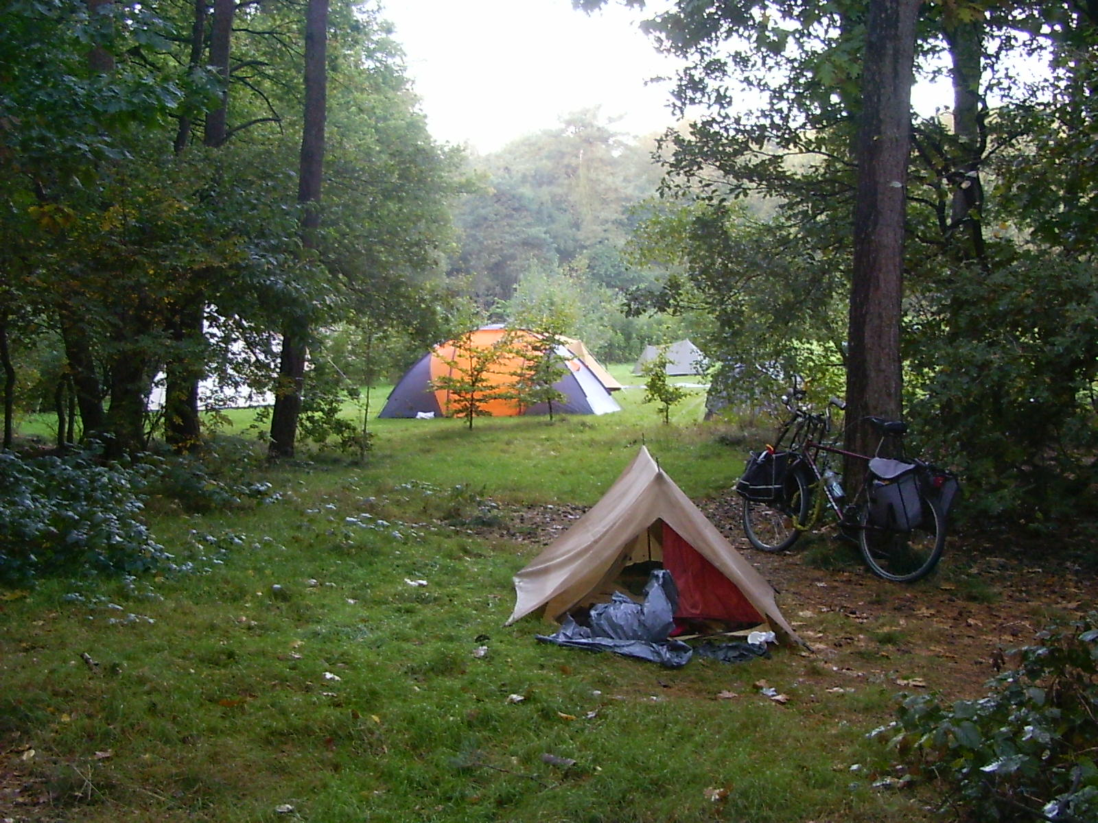 Scouting campsite Saint Walrick, Overasselt